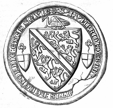 Drawing of counter seal of Humphrey de Bohun, 4th Earl of Hereford. A wax impression of this seal exists in the National Archives, Kew, one of many formerly attached to the Barons' Letter, 1301